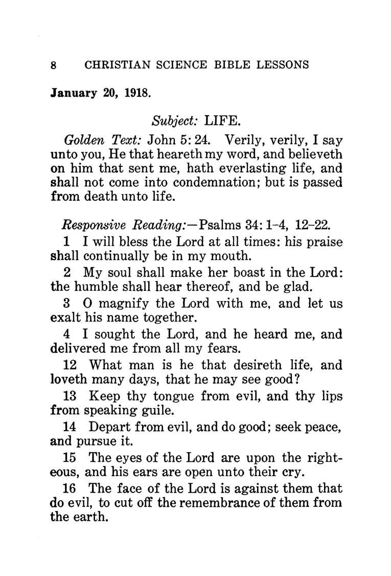 Christian Science Quarterly Bible Lesson-sermon, subject: Life, for January 20, 1918, first of three pages